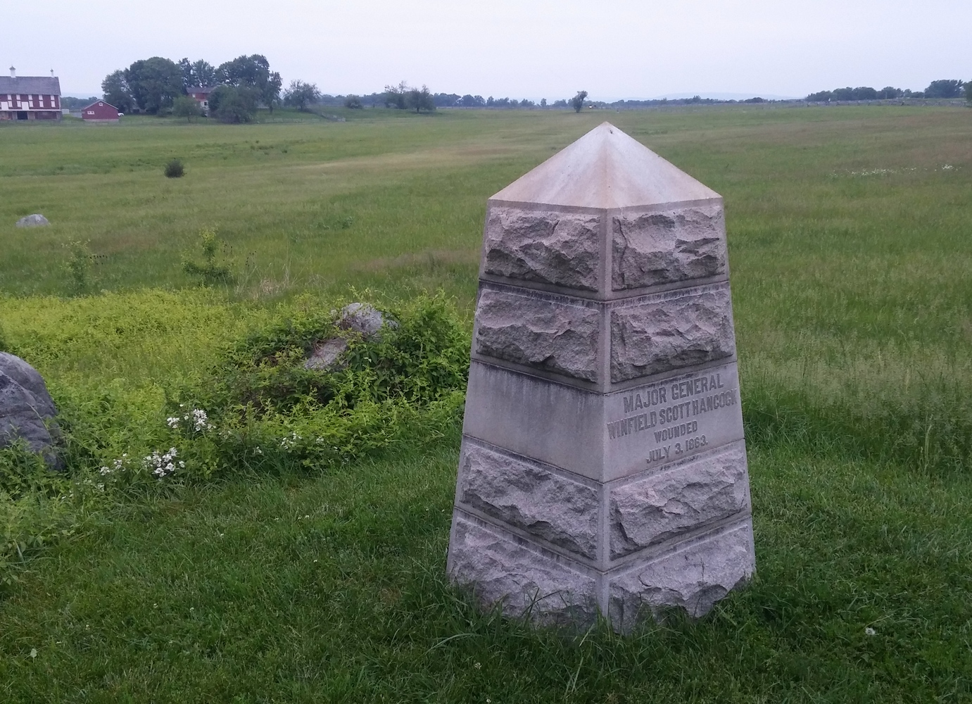 Marker showing the location where General Winfield Scott Hancock was wounded. The Codori farm is in the distance. (1888)